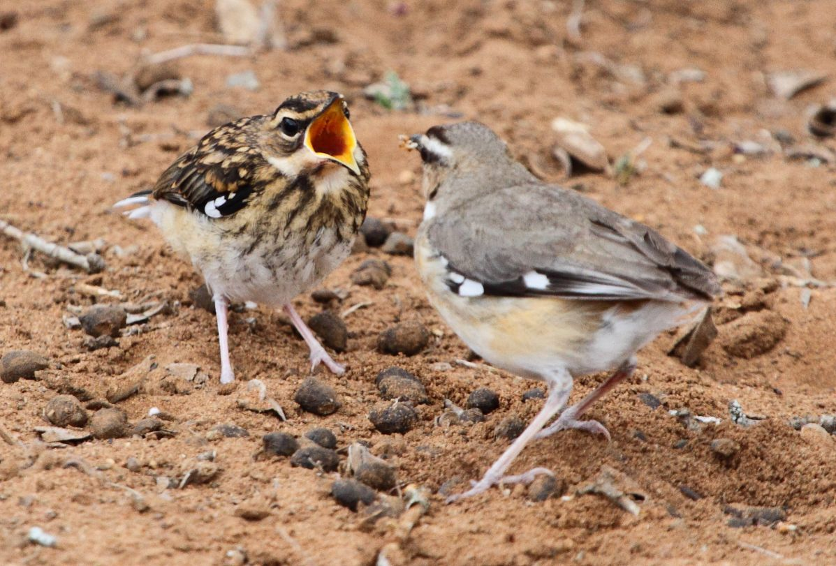 Juvenile Bearded Scrub-Robin Cercotrichas quadrivirgata begging at Mantuma camp, Mkhuze Game reserve, KwaZulu-Natal, South Africa.